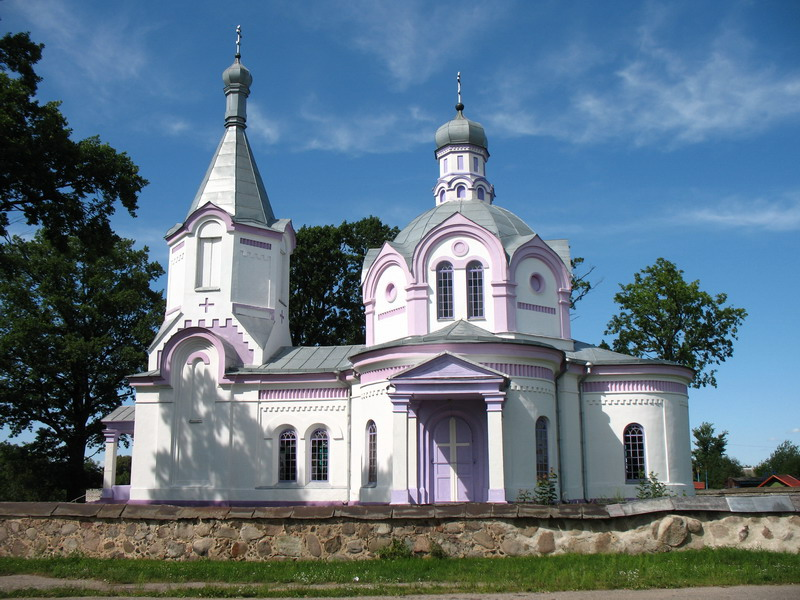 Orthodox church of the Holy Trinity in Daŭhinaŭ, Biełaruś